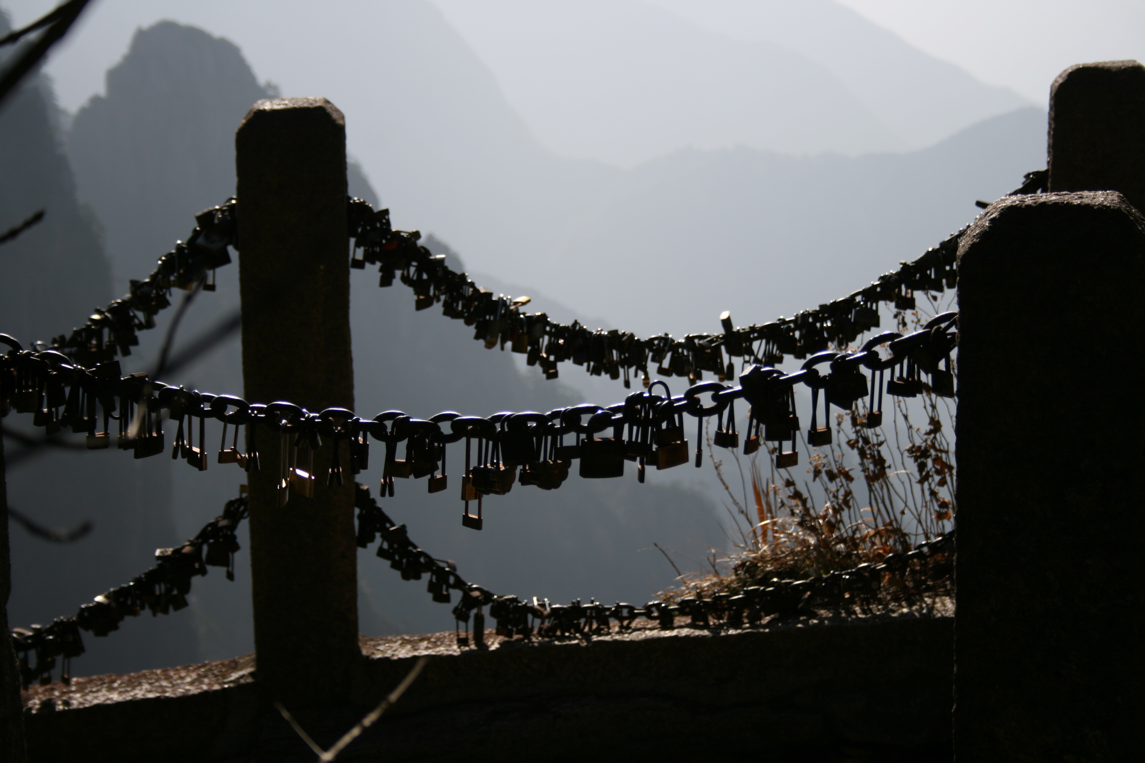 Photo of railings and scenery of Mount Huangshan. It is customary to 'lock your soul' together by clasping the padlock (often with a personal engraving) on to a permanent structure, such as the metal railing and then to throw the key over the edge of the cliff into the misty valleys below